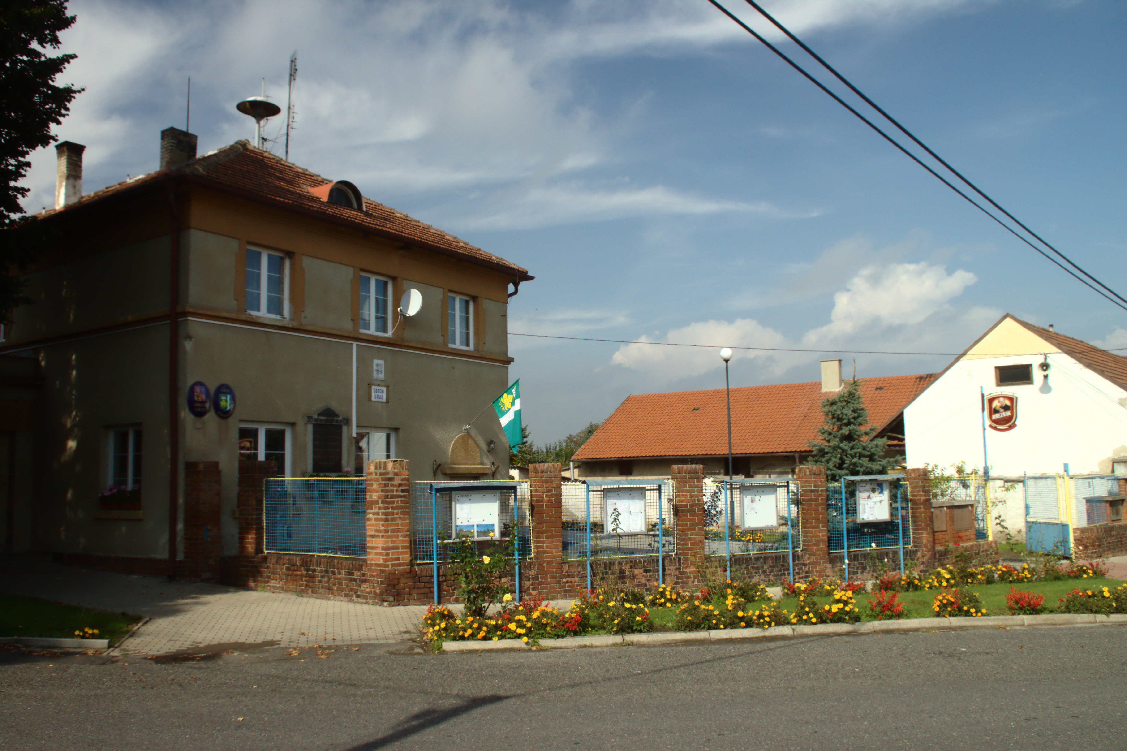 Town hall in Židovice near Litoměřice, Ústí Region, CZ